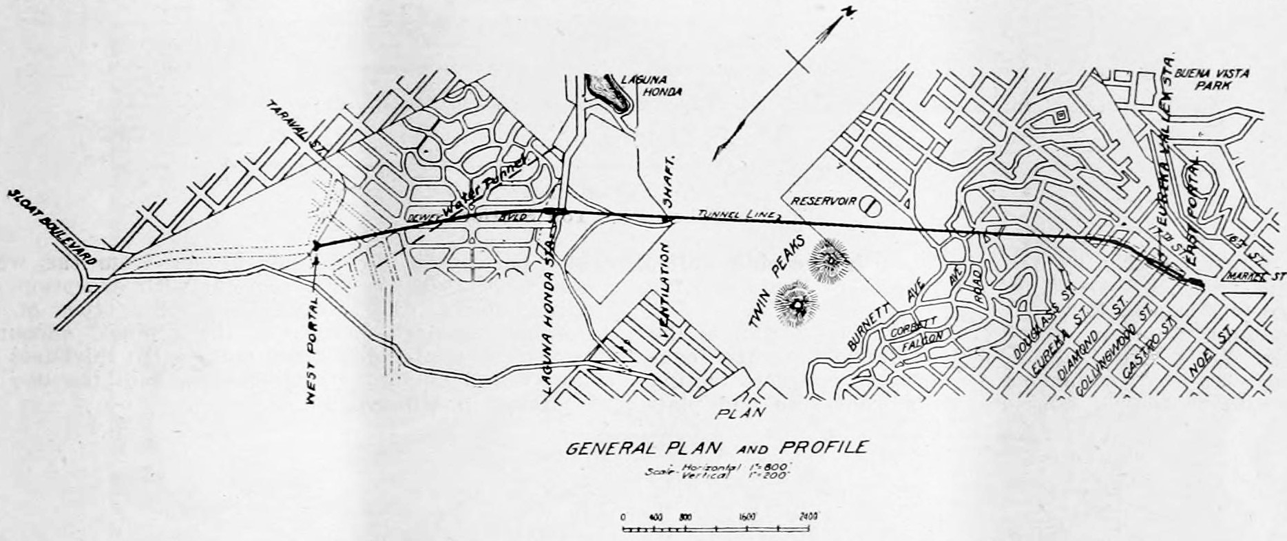 Caption: General Plan and Profile [of the Twin Peaks Tunnel]